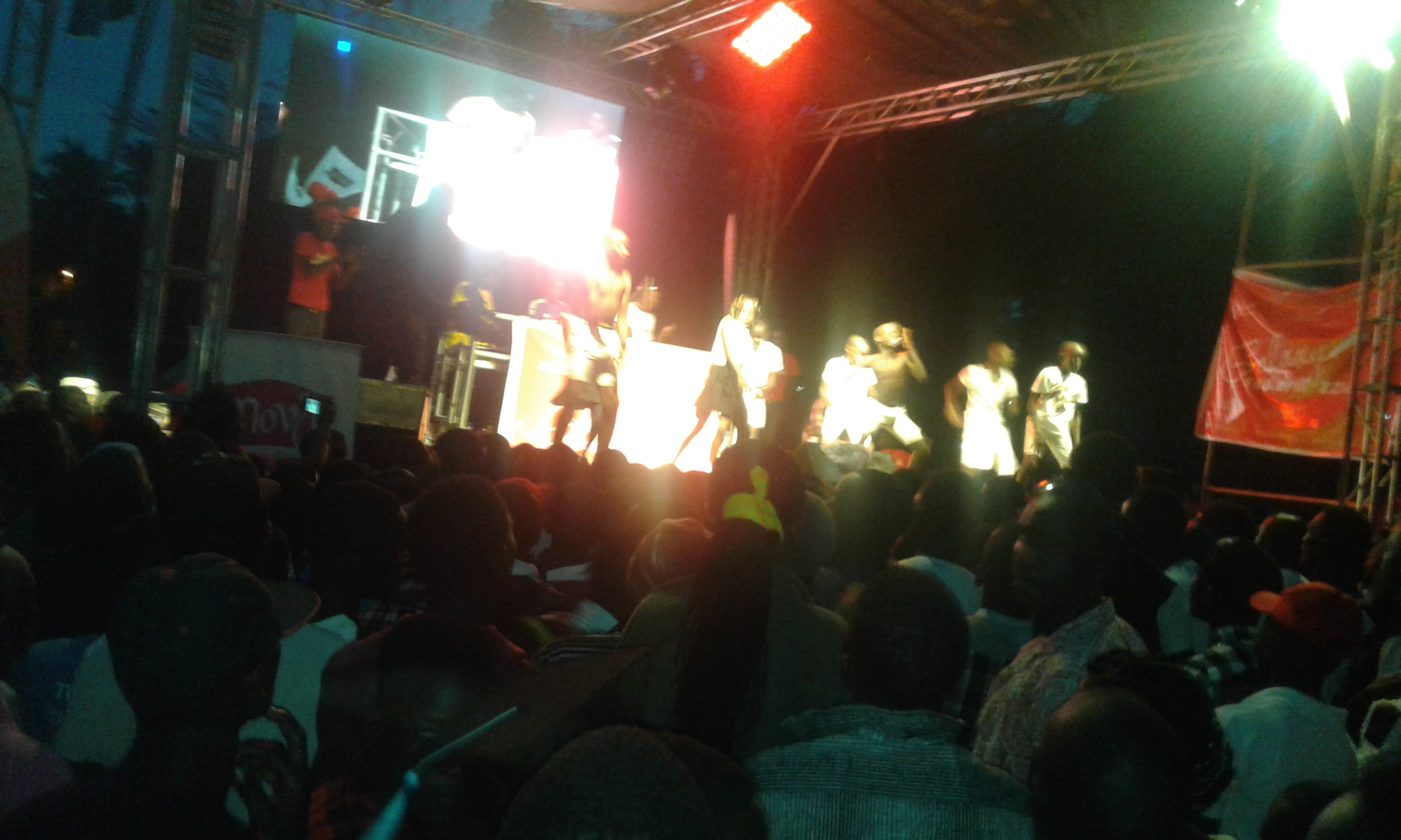 famous for the sitya loss by eddy kenzo This is an image from Uganda